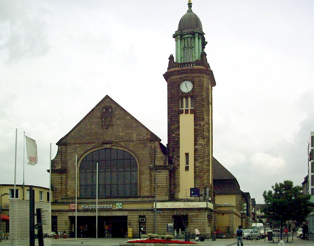 Hagen (Westfalen) main station, Hagen, Germany This image shows a heritage building in Germany, located in the North Rhine-Westphalian city Hagen (no. 001). check usage